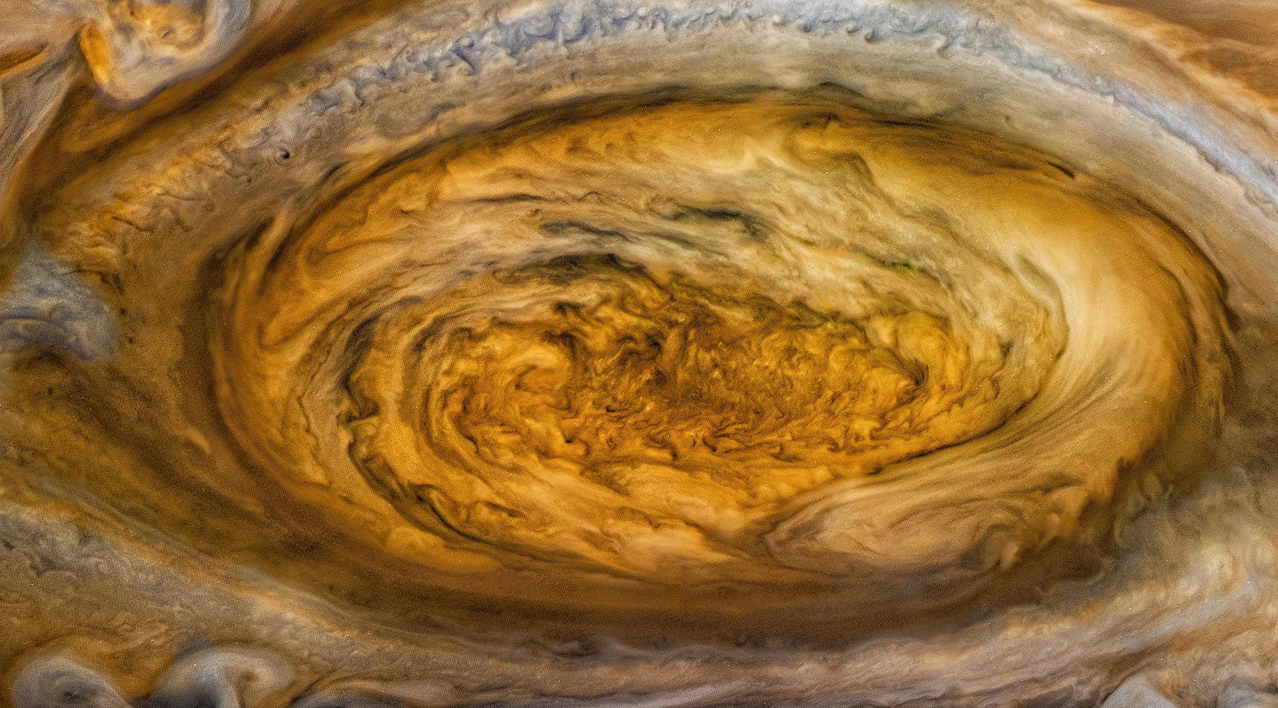 Processed using low resolution (wide angle) orange, green, and blue filtered images overlaying high resolution (narrow angle) orange images taken by Voyager 2 on July 8 1979. NASA/JPL-Caltech/Kevin M. Gill